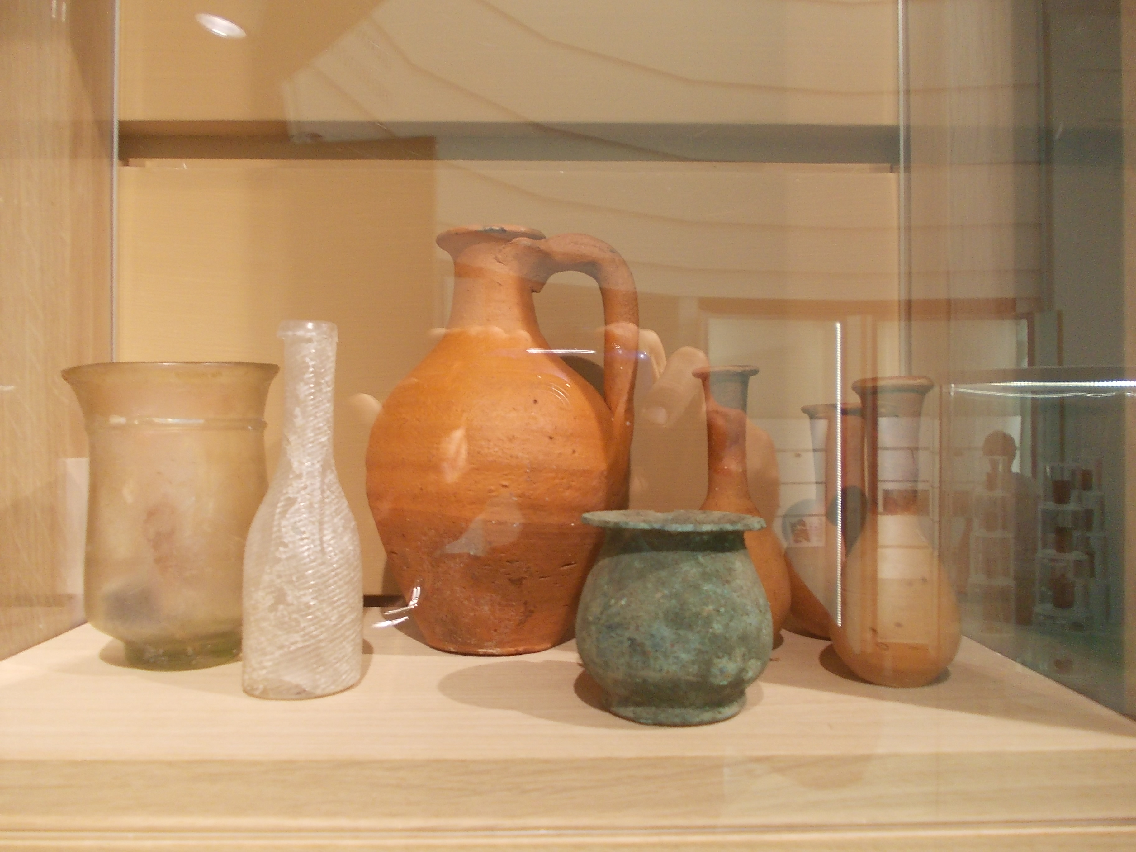 Items used for magical ritual at Anna Perenna fountain found in Rome